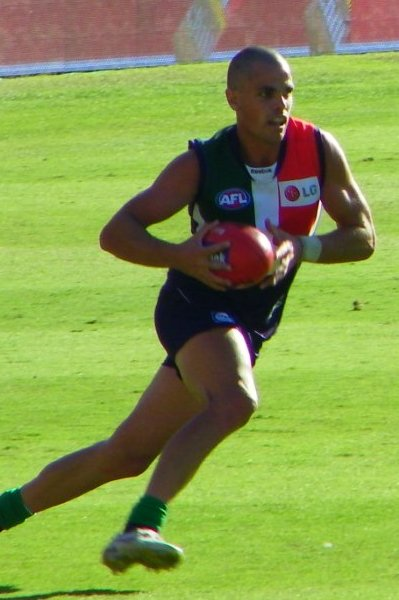 Brett Peake during the AFL round three match between Fremantle and Adelaide on 12 April 2009 at Subiaco Oval in Perth, Western Australia.